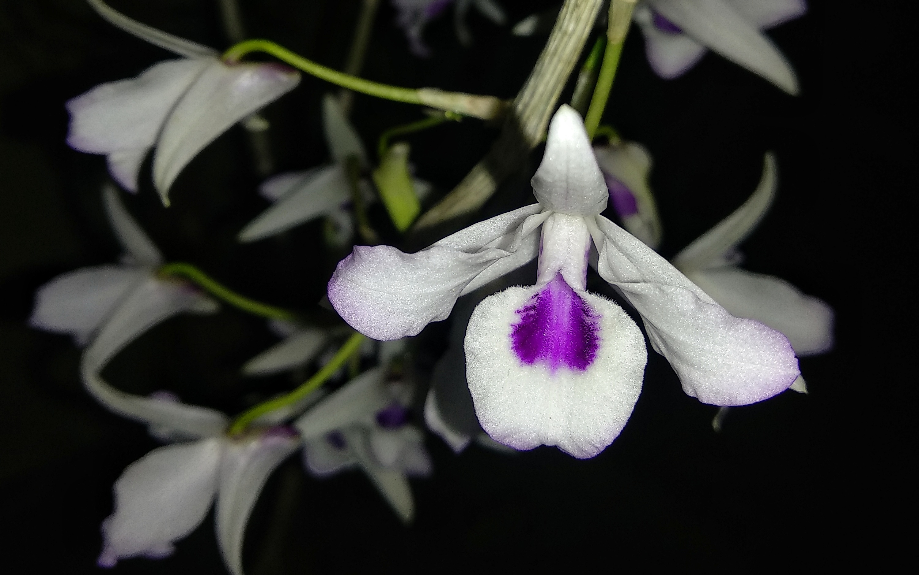 Orchid flower